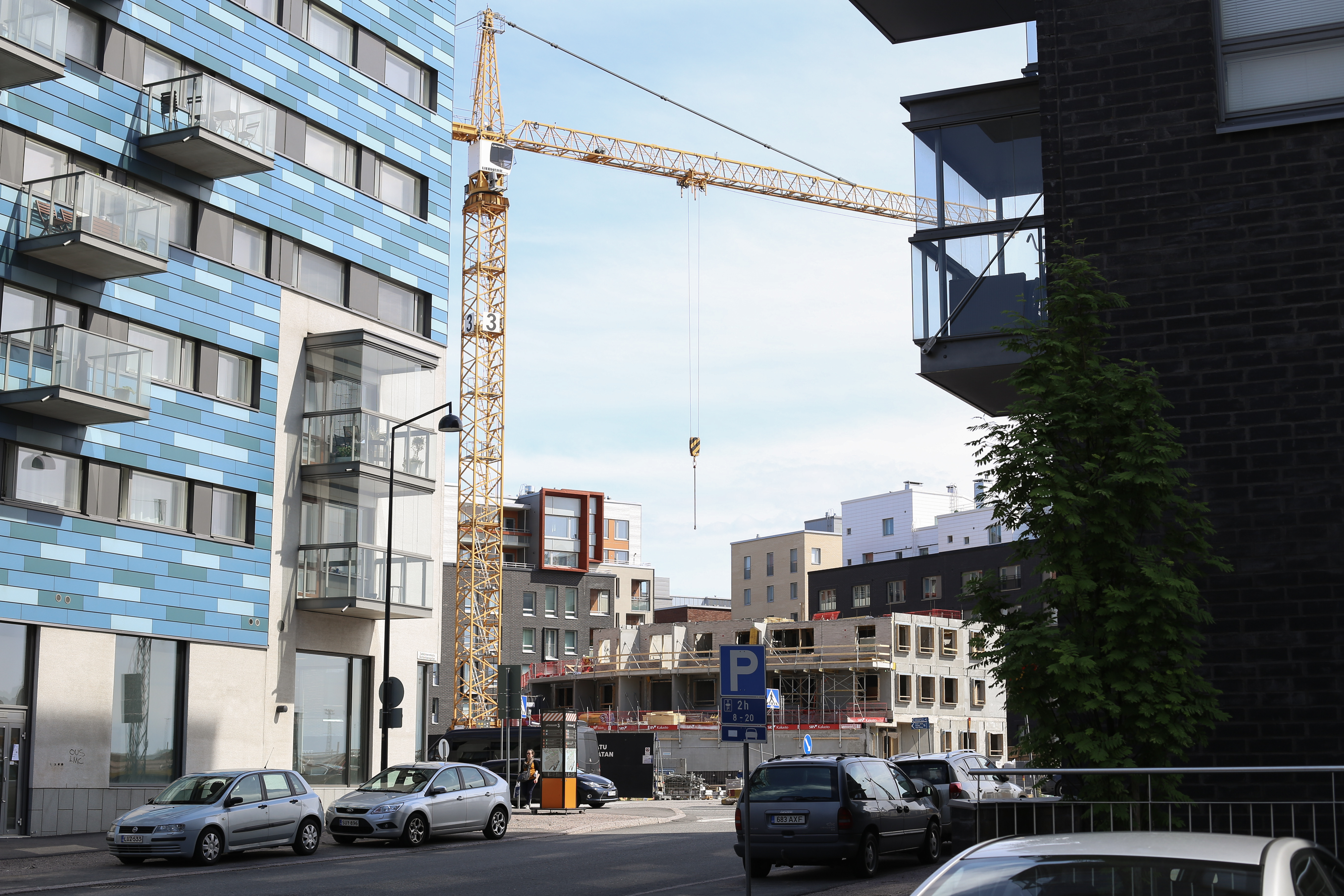 Jätkäsaari being built in Summer 2015.